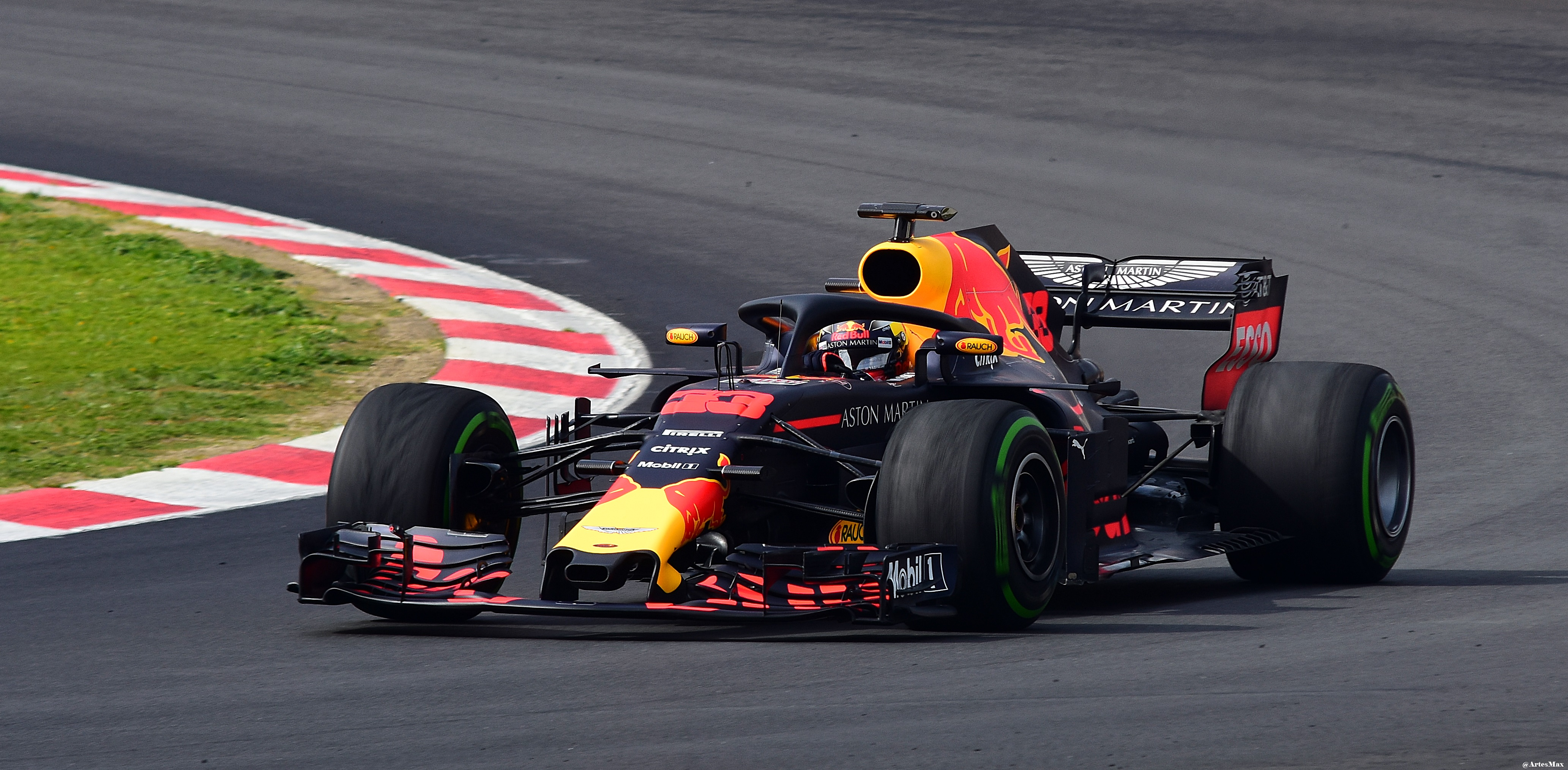 Max Verstappen testing the Red Bull RB14 during pre-season testing in Barcelona.